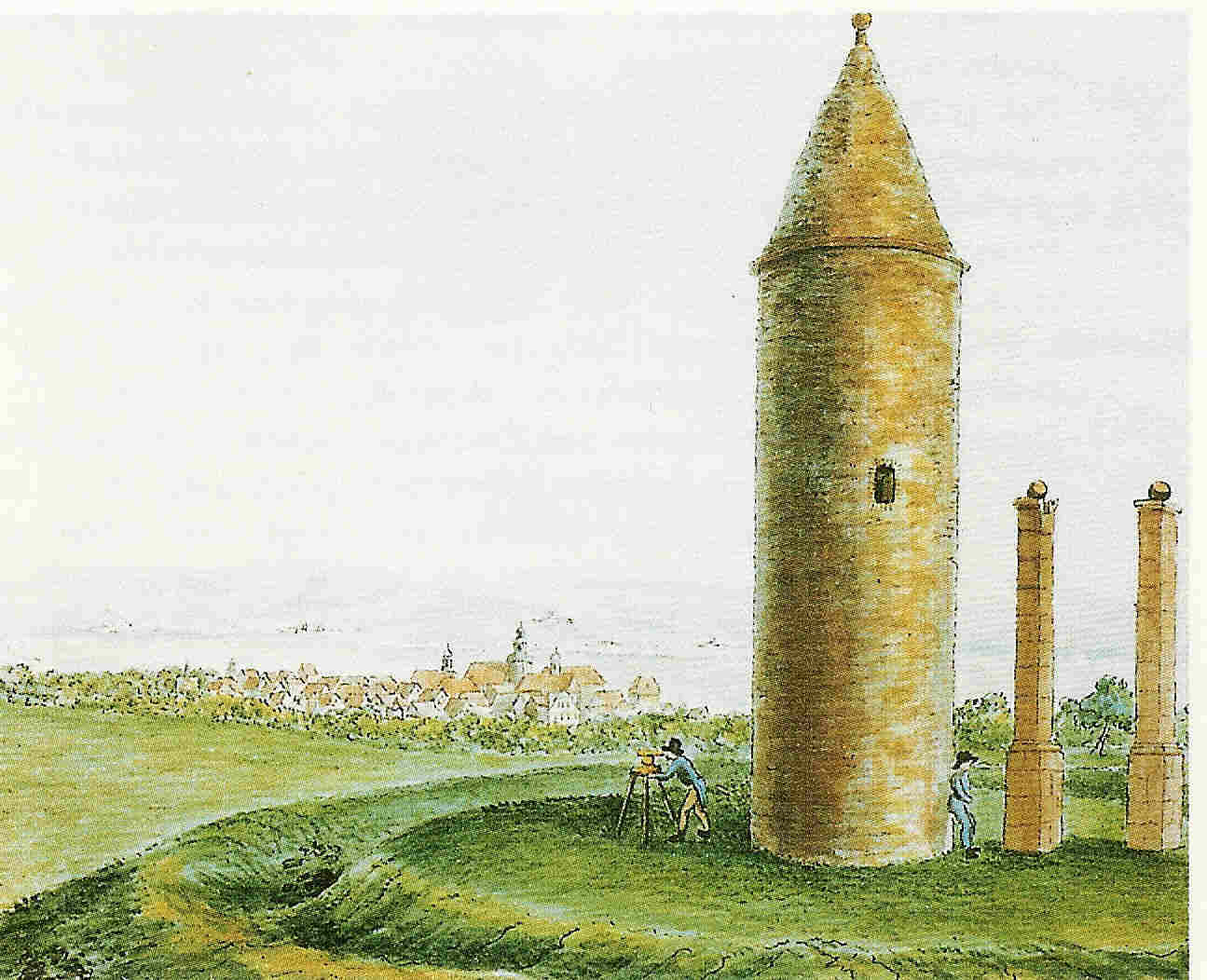 The Berger Warte watchtower with gallows near Frankfurt-am-Main. Drawing by Friedrich Philipp Usener, ca. 1820